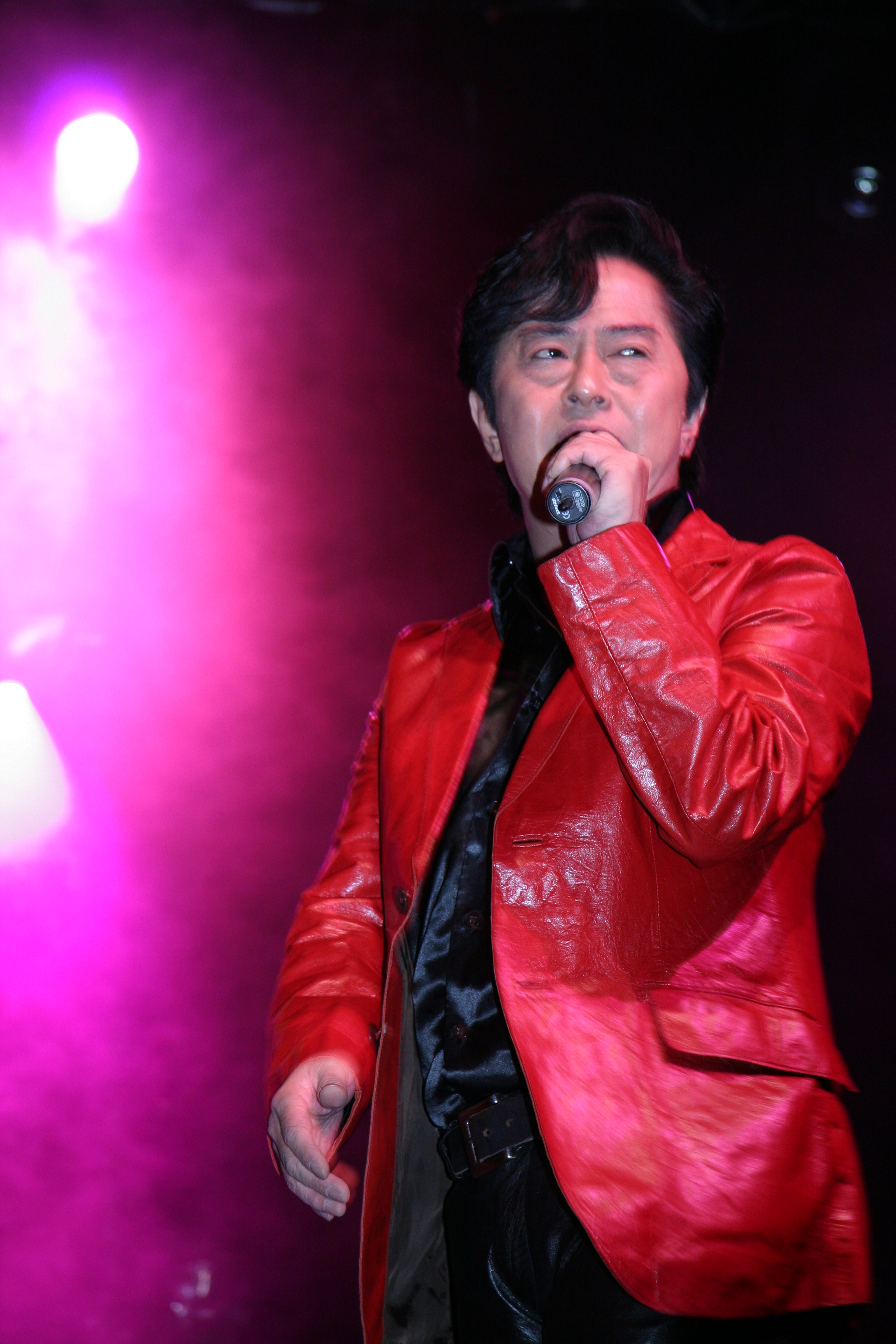 Ichiro Mizuki live at Japan Expo 2007 (Paris, France).